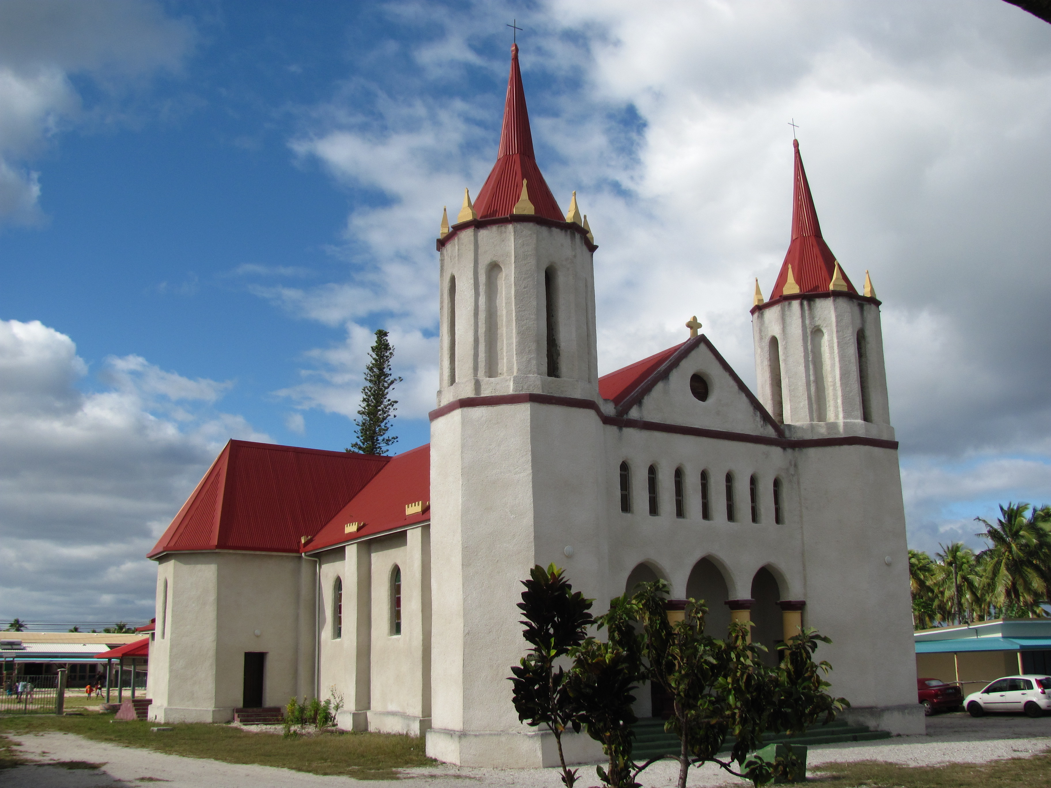 Catholic Church, Fayaoué, Ouvéa Island, New Caledonia